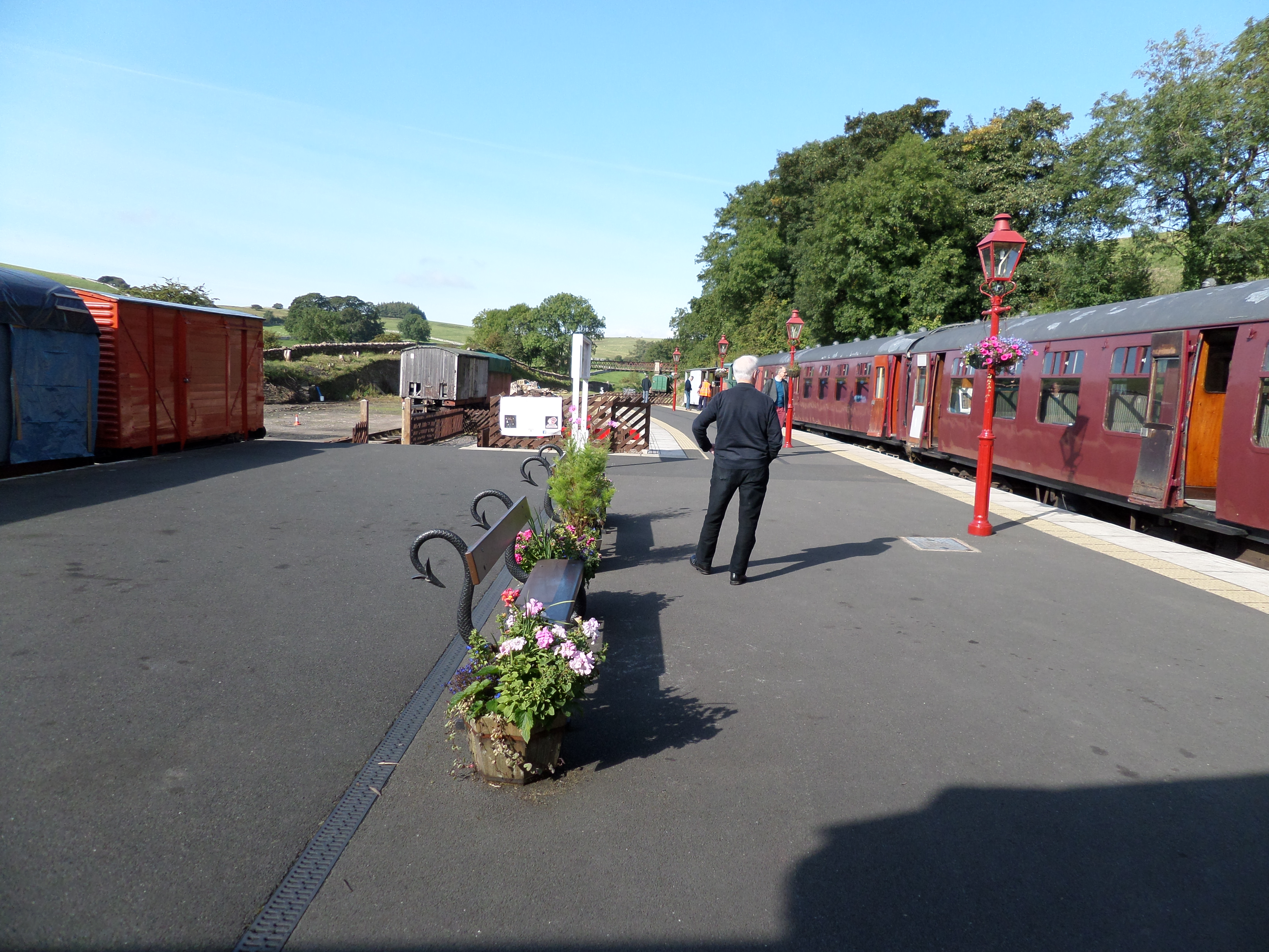 Kirkby Stephen East railway station platform on the Stainmore Railway, Shareholders Day 2015. Yorkshire, England.